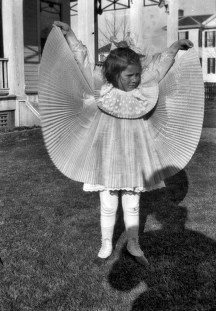 A small girl wearing a fancy dress and holding her skirt with both hands.